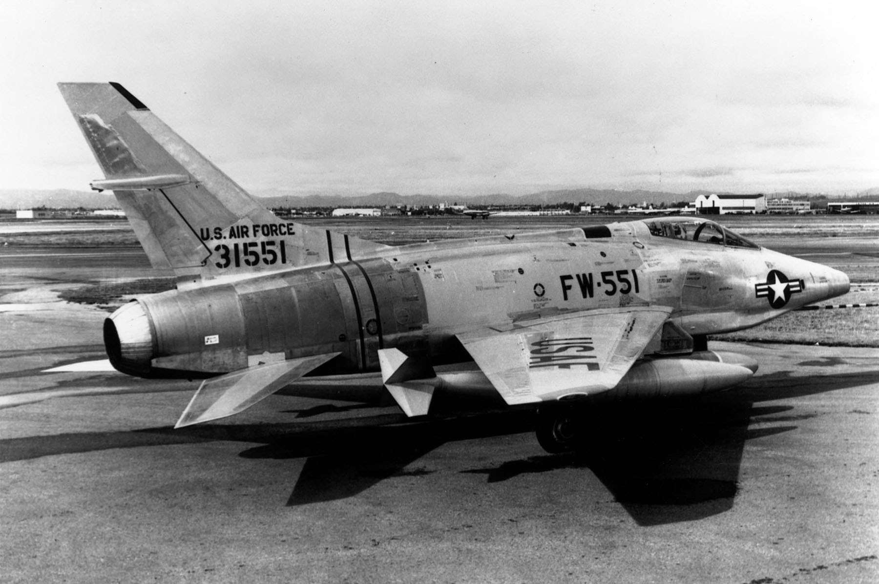 A North American RF-100A Slick Chick in flight. Six almost complete F-100As were modified as unarmed photographic reconnaissance aircraft in 1954. The RF-100A serials were 53-1545 to 53-1548, 53-1551 (pictured), and 53-1554. This aircraft served with Detachment 1 of the 7407th Support Squadron, 7499th Support Group. It crashed near Neidenbach, Germany on 1 October 1956, the pilot ejected safely.